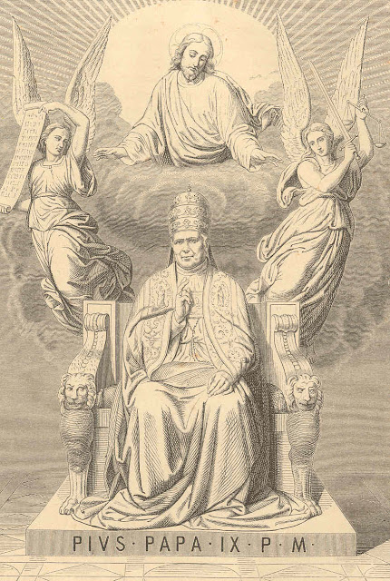 Pope Pius IX arrounded with angels in Bull Quanta cura with Syllabus Errorum